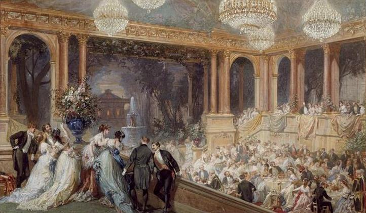 Official dinner at the Tuileries Palace for the opening of the Universal Exposition of 1867